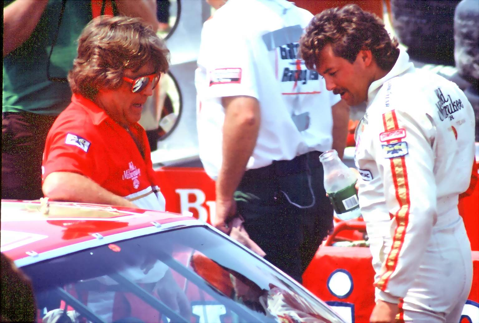 Drag Racing champion and NASCAR owner Raymond Beadle (left) talks with his NASCAR driver Tim Richmond (right). Photo By Ted Van Pelt